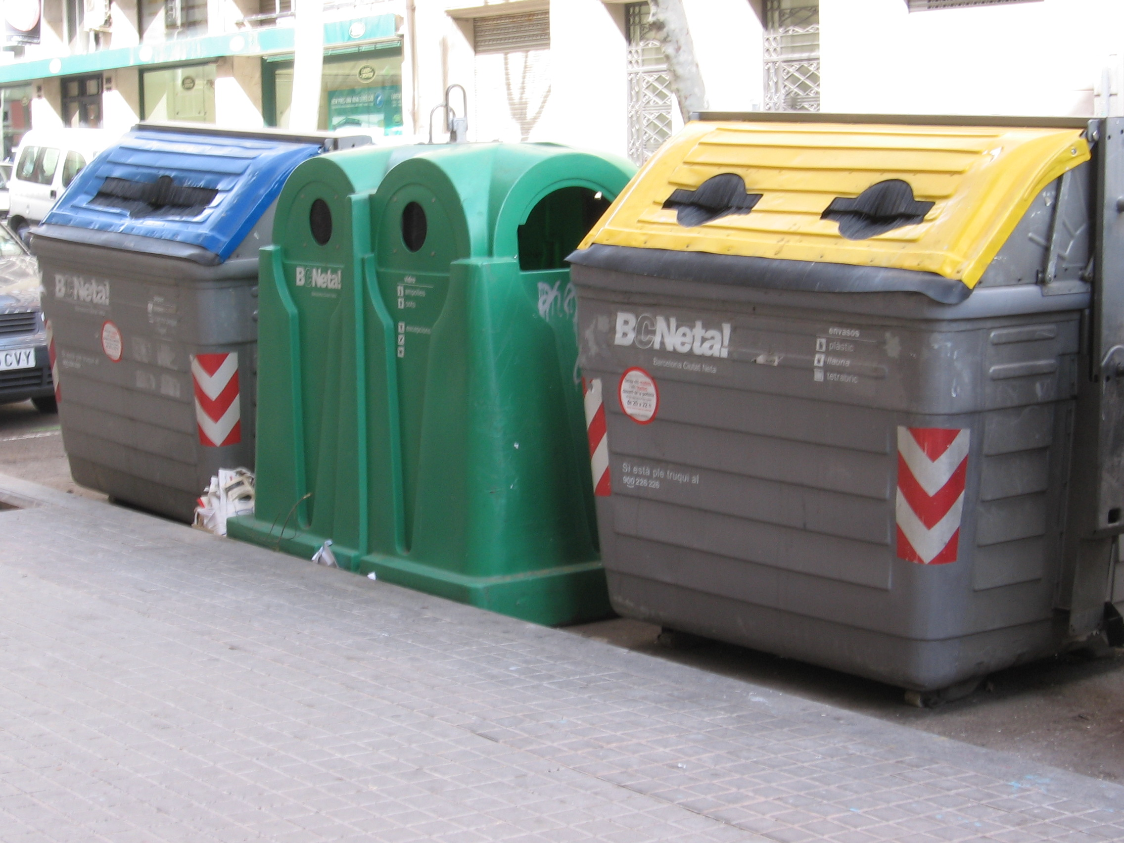 Colour-coded kerbside bins for recycling (left to right) paper, glass, and plastic, in Barcelona, Spain.